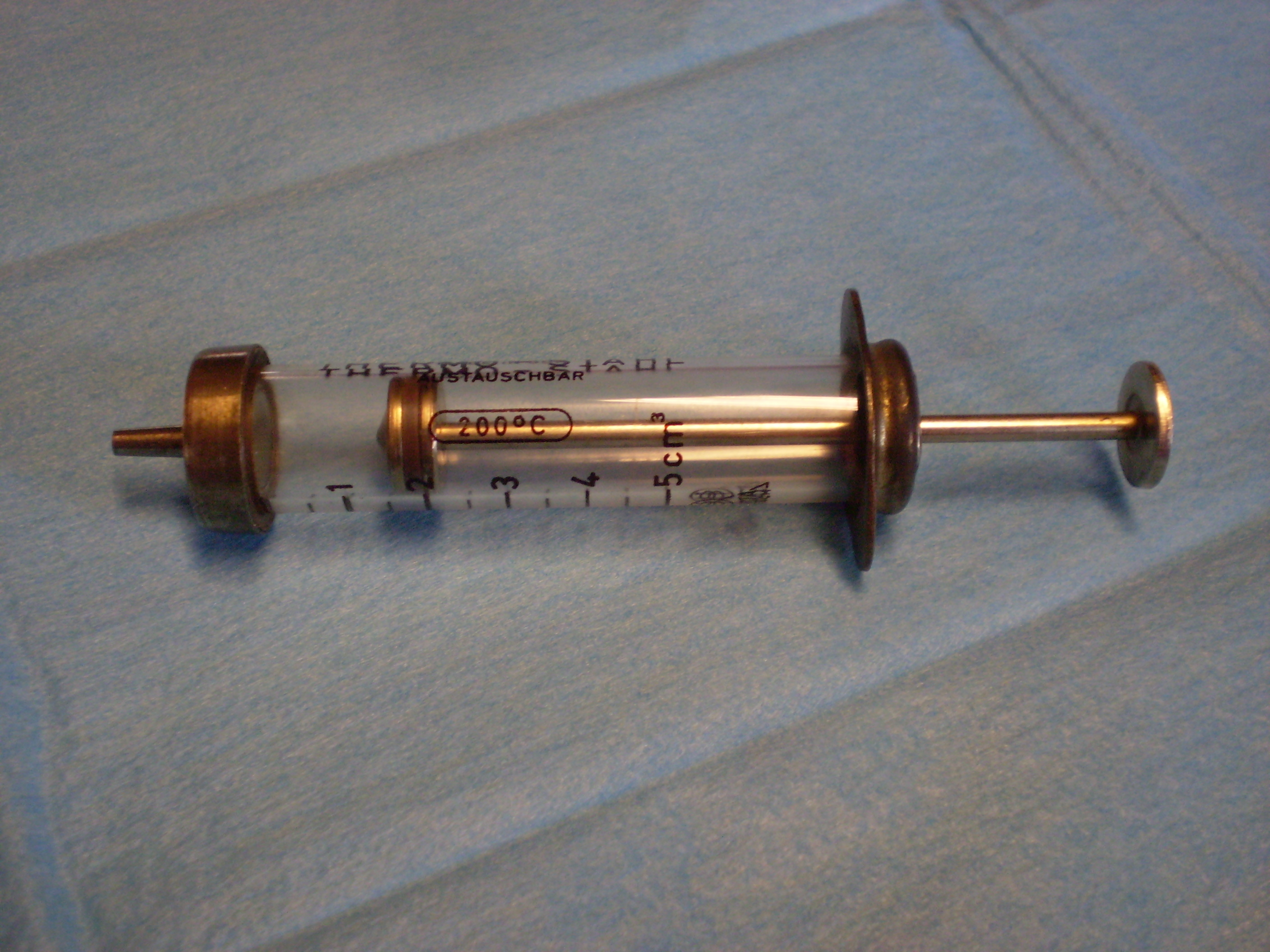 Syringe (Record)